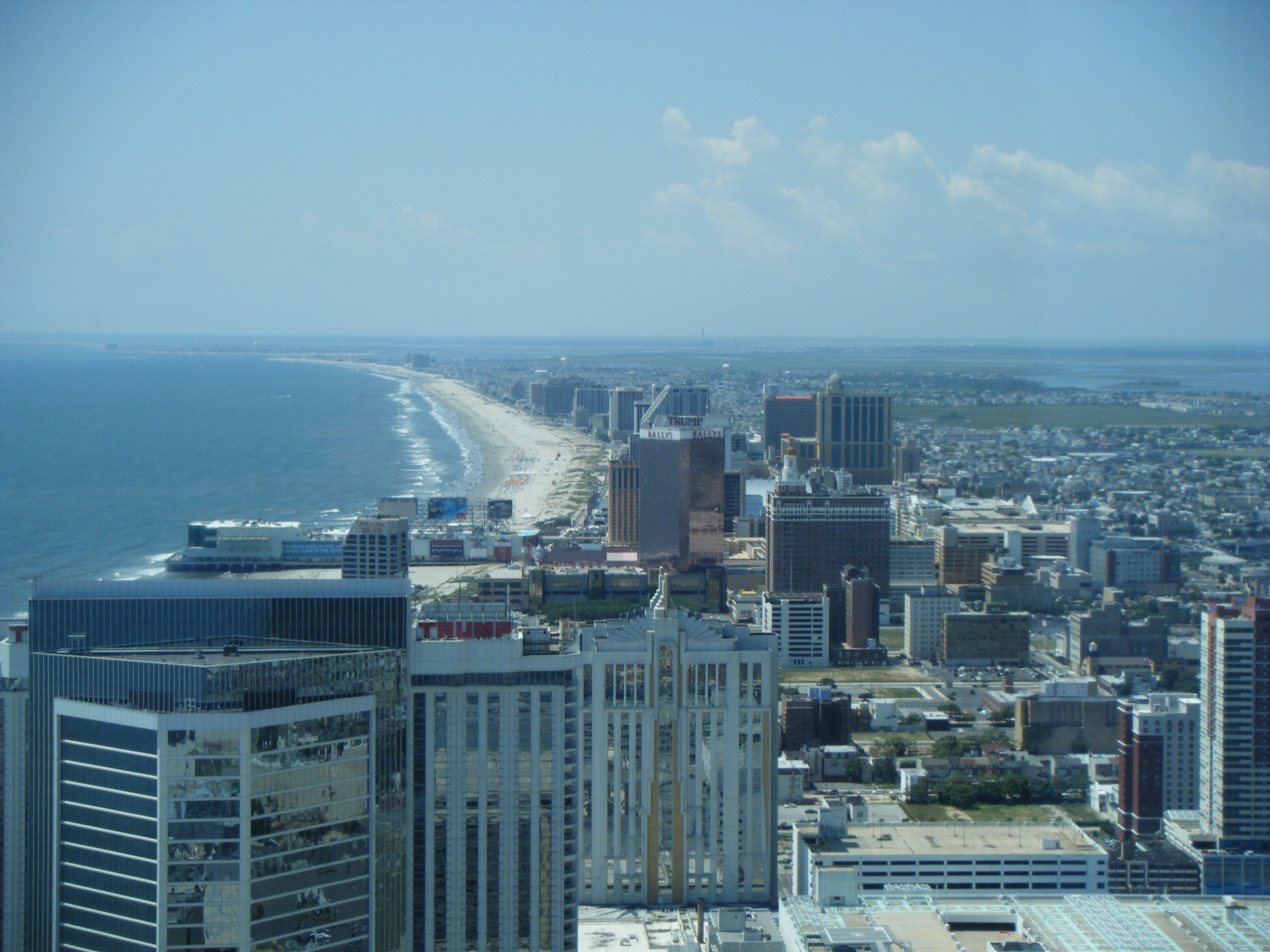 The skyline of Atlantic City, New Jersey looking southwest from the 47th floor of Revel Atlantic City